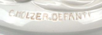 Signature of German sculptor Constantin Holzer-Defanti